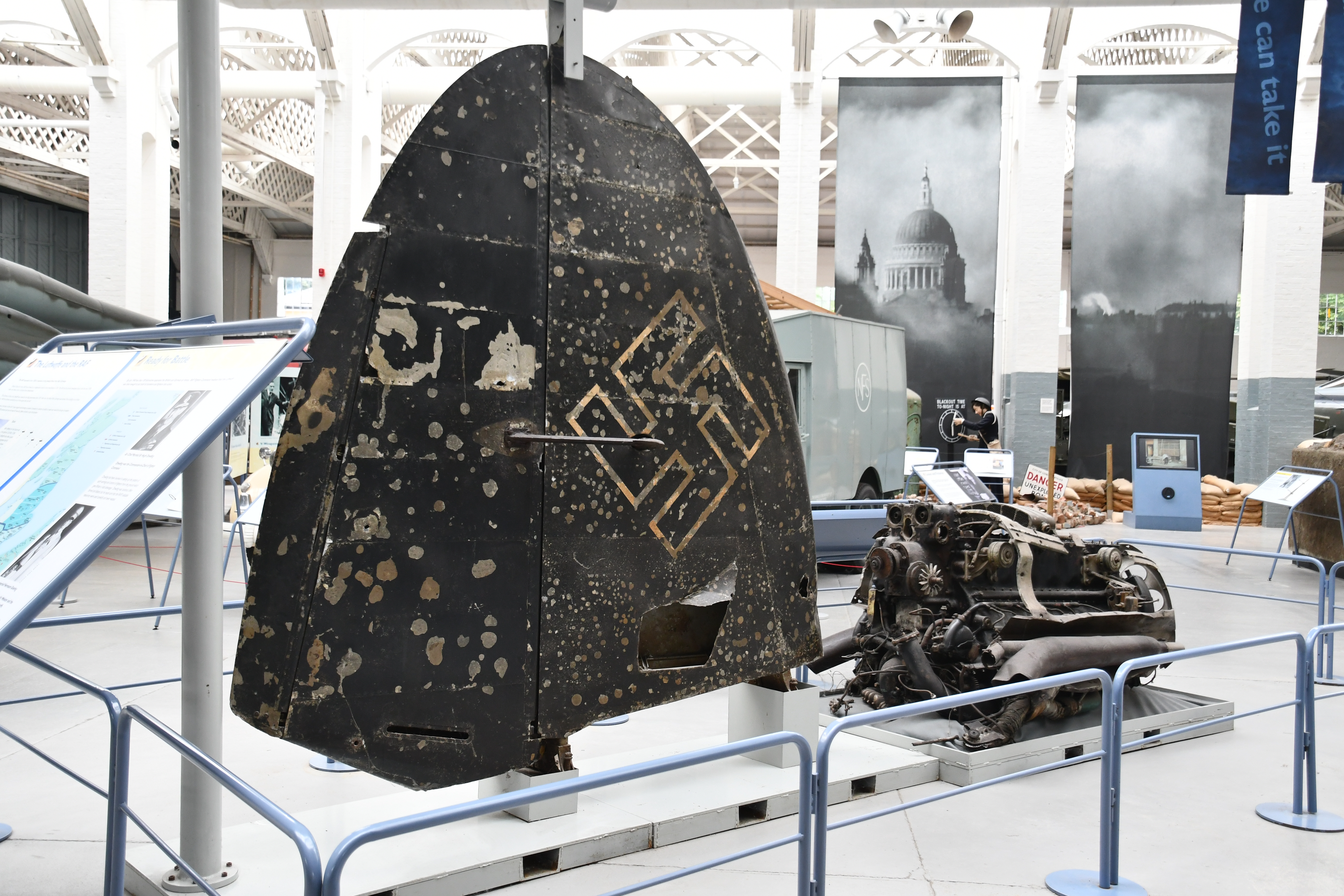 Hard life for an He 111 over England - IWM Duxford